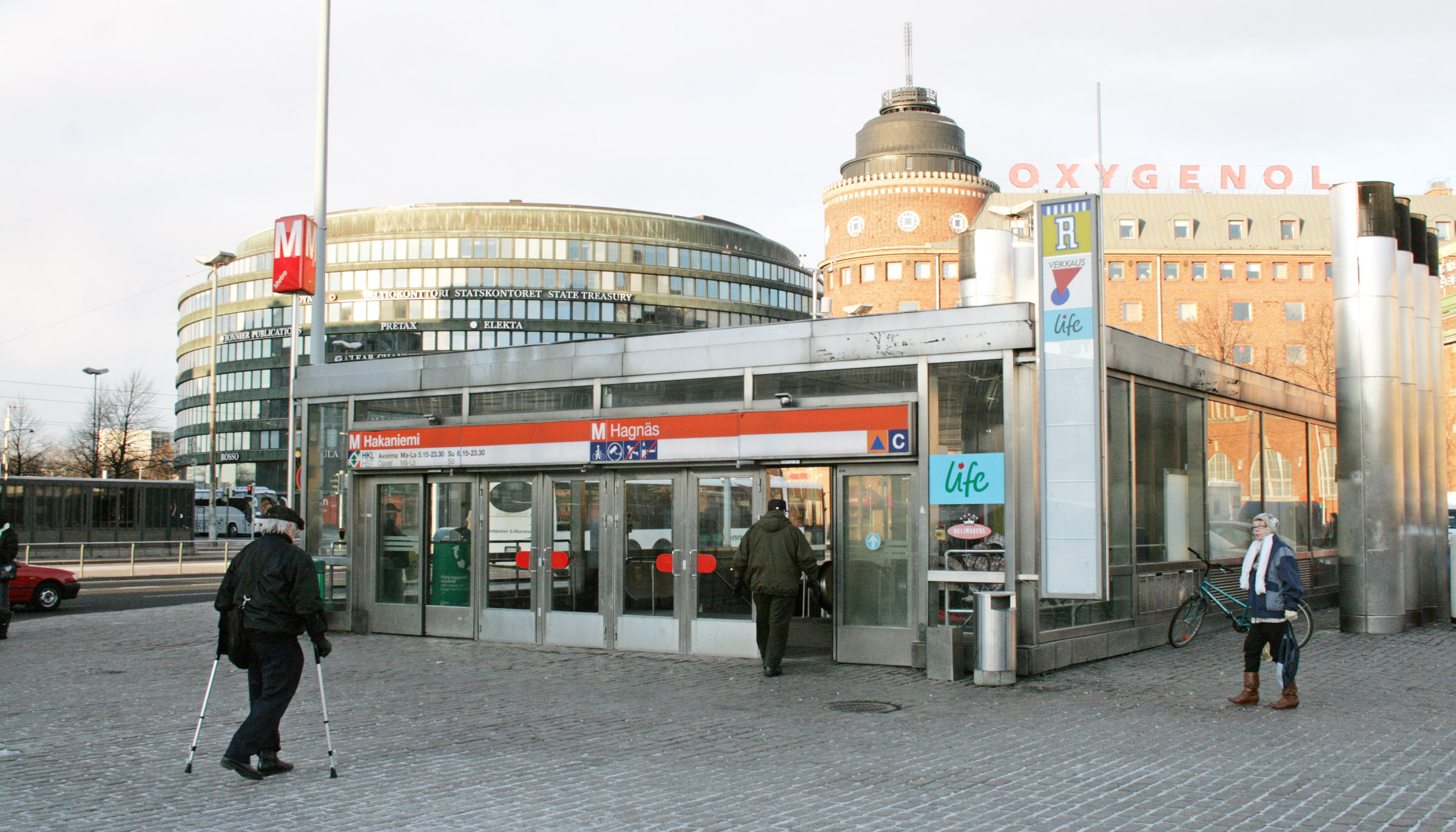 Hakaniemi metrostation vestibule.